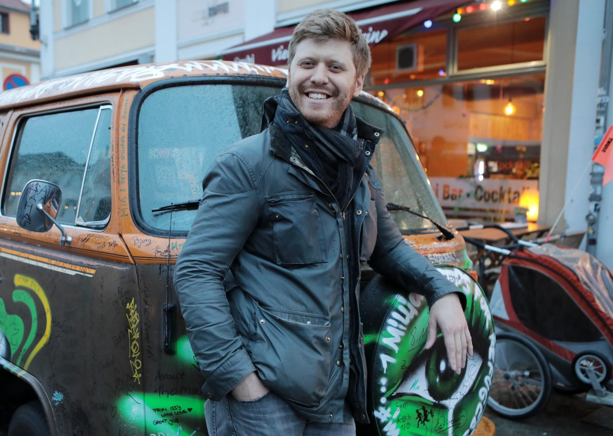 This photo was taken in Potsdam, Germany. Grigorij Richters was walking from Paris to Berlin, raising awareness about the suffering of 1,000 unaccompanied children who are stuck in refugee camps in Greece. He is standing in front of the VW bus which accompanied him on his journey. Picture is owned by his company, Films United.